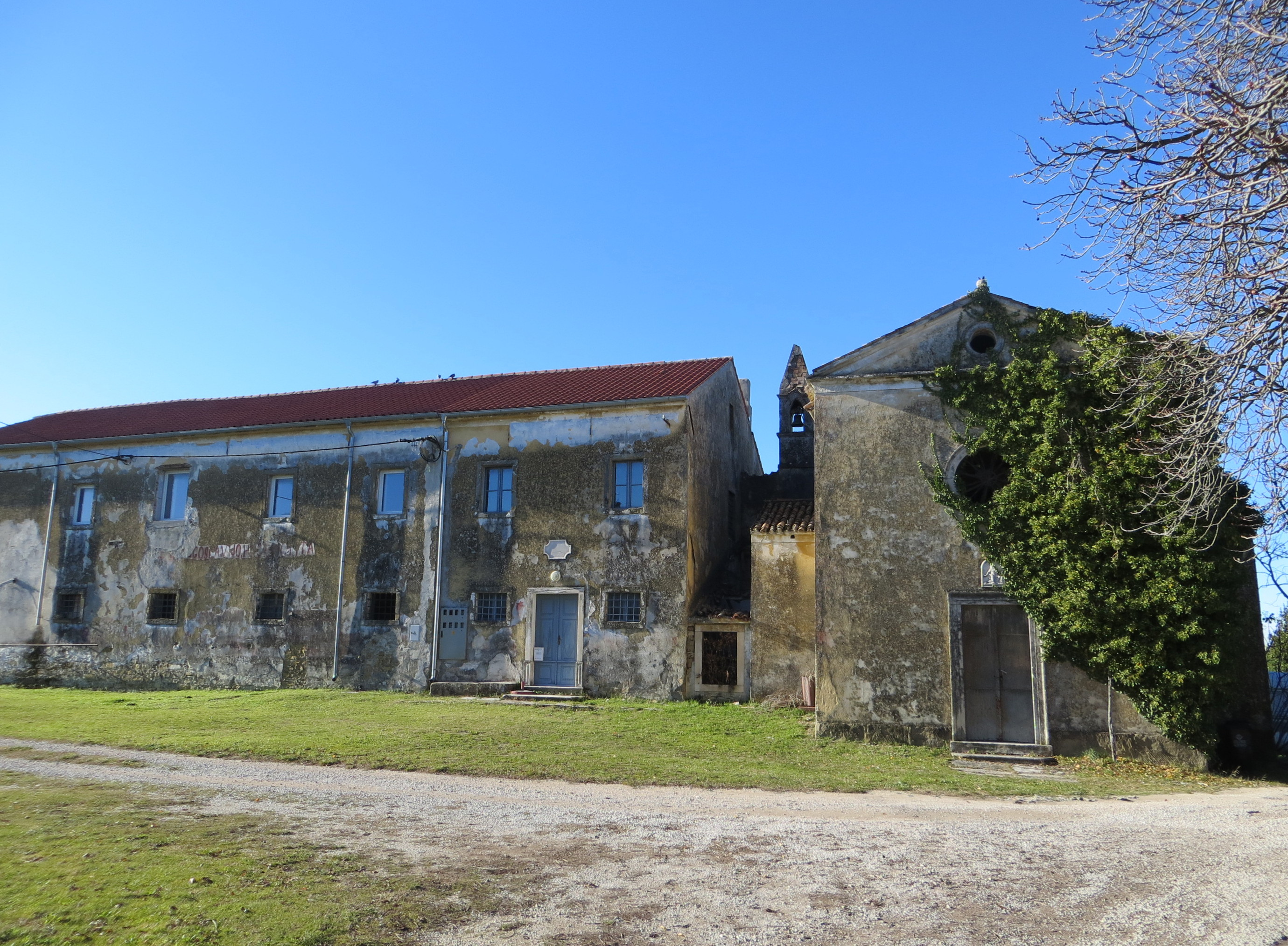 Saint Onuphrius's Church and monastery in the hamlet of Krog in Sečovlje, Municipality of Piran, Slovenia. Propaganda inscription at left: "[Hočemo Ju]goslavijo. Hočemo Tita" (We want Yugoslavia. We want Tito.) This media shows a cultural heritage object of Slovenia with the EŠD number: 24333